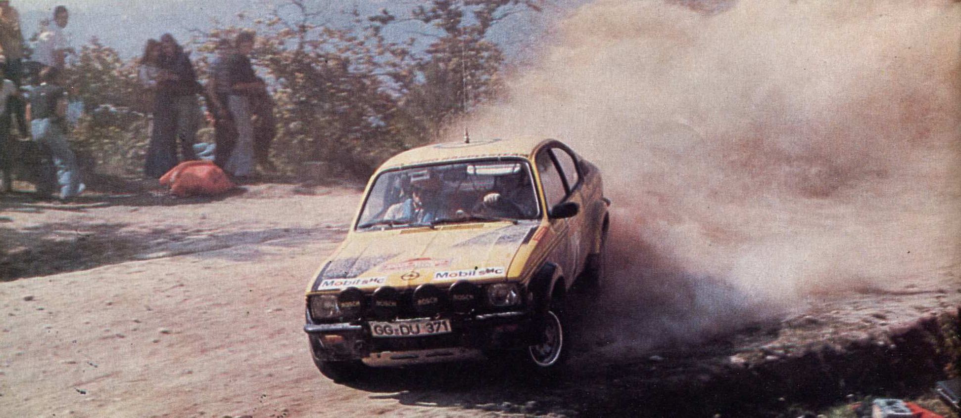 Walter Röhrl and co-driver Jochen Berger on a Opel Kadett GT/E "Type C" (Group 2) at the 1975 Rallye Sanremo.